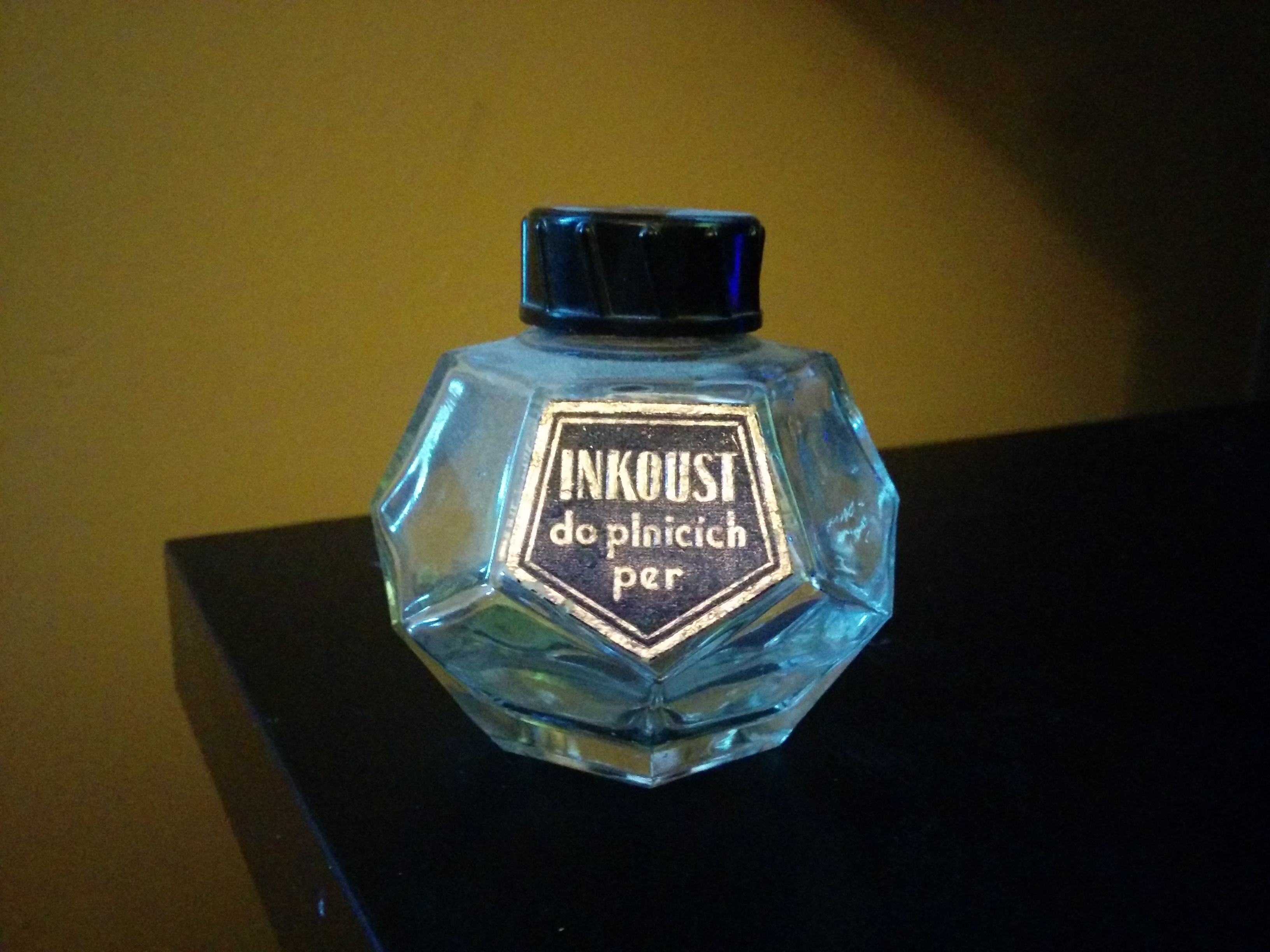 Czech inkoust inkwell.